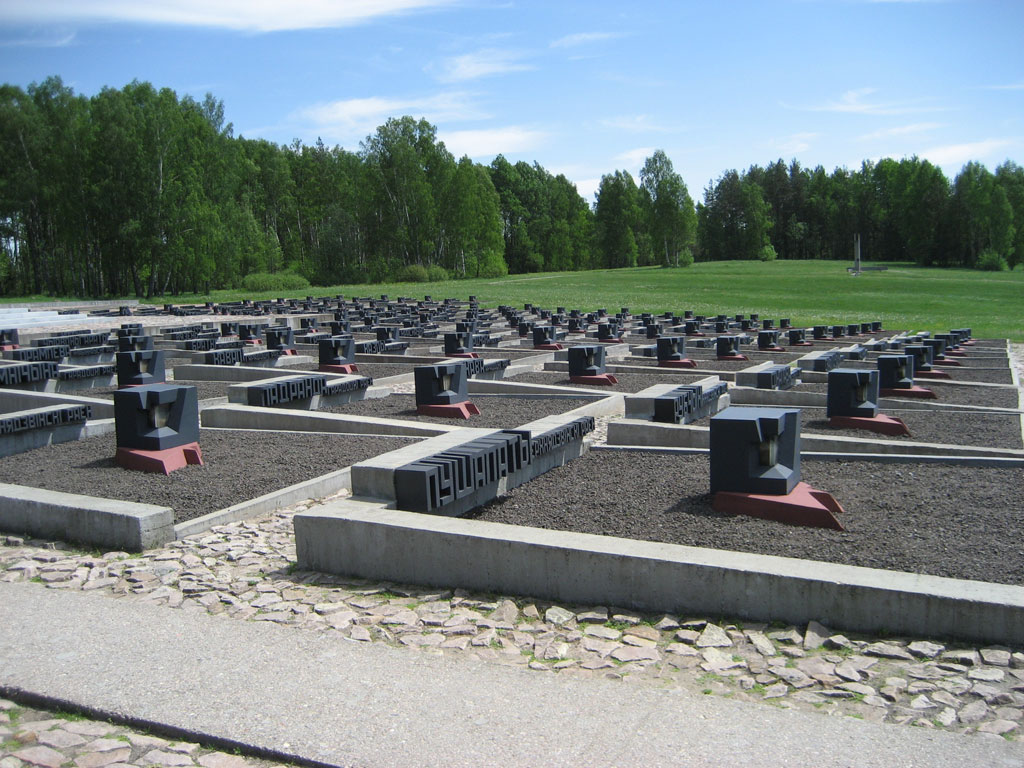 Memorials for destroyed villages at the Khatyn Memorial